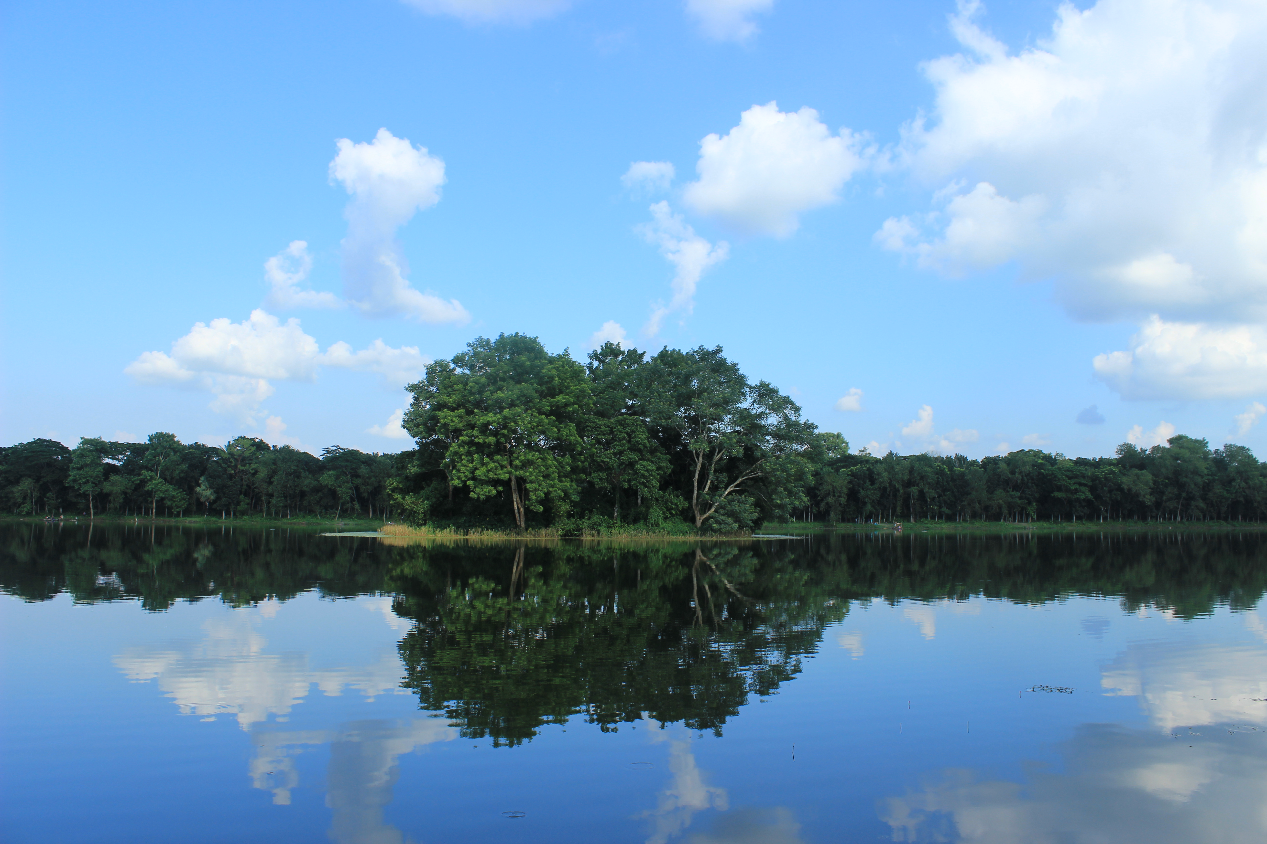 Durga Sagar is the biggest lake in the southern part of Bangladesh. It's total area is about two thousand five hundred hectors. The lake is about eleven km far away from the Barisal city. Rani Durgabati mother of Raja Joy Narayan Excavated this lake at 1780. There is a hummock in the center of the lake which looks like a small island.